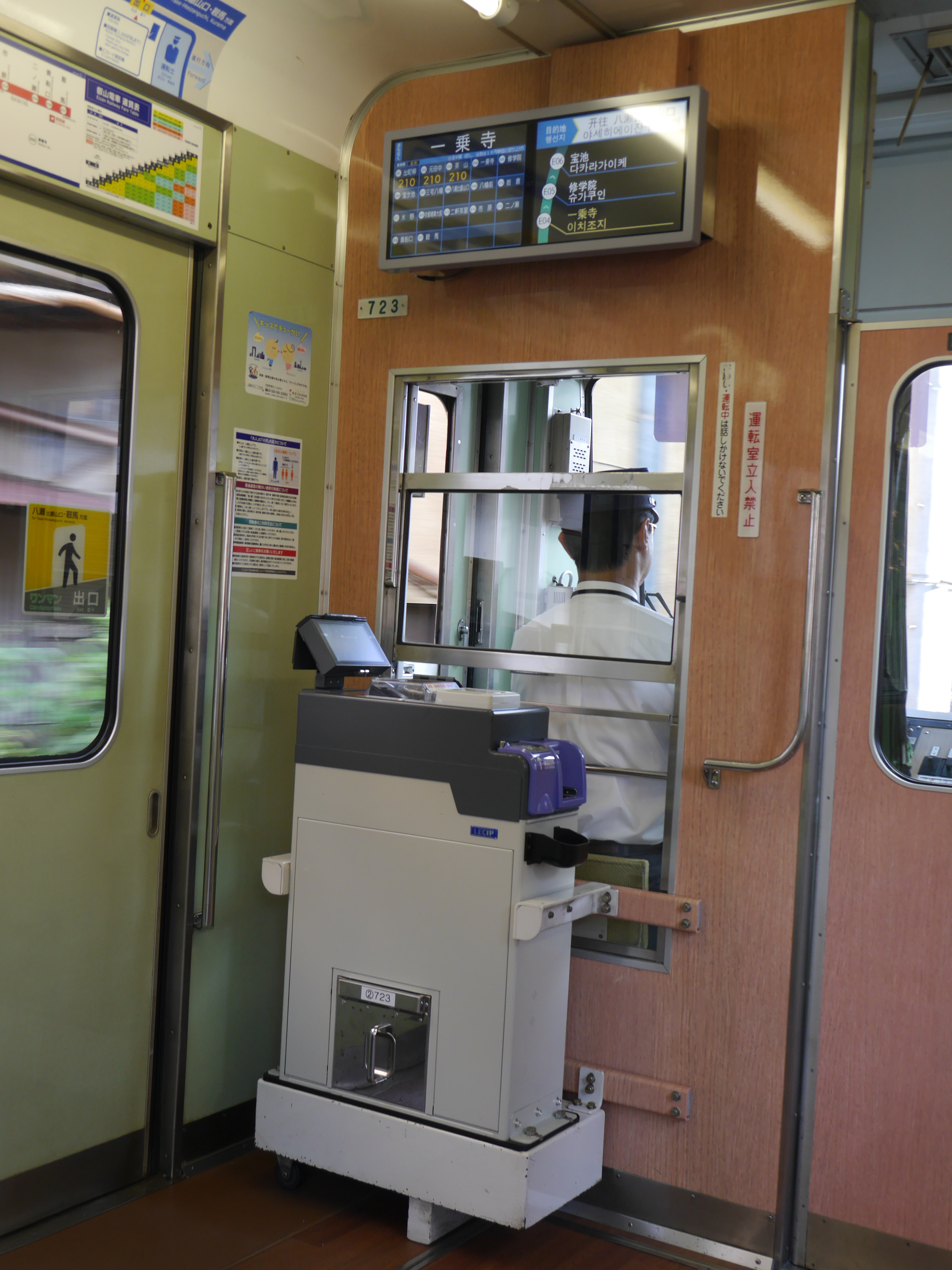 Fare machine and fare table showing LCD on Eizan Electric Railway 723